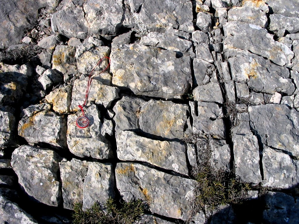 Joints in dolomite rocks, "Villa de Vés Dolomite Formation" in the Province of Cuenca, Spain in the autonomous community of Castilla-La Mancha. The joints between the clasts are enormous, thus the rock formation is highly water permeable.